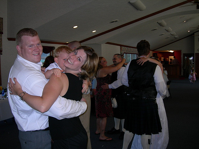 note every guy has the same posture in the exact same position . . .